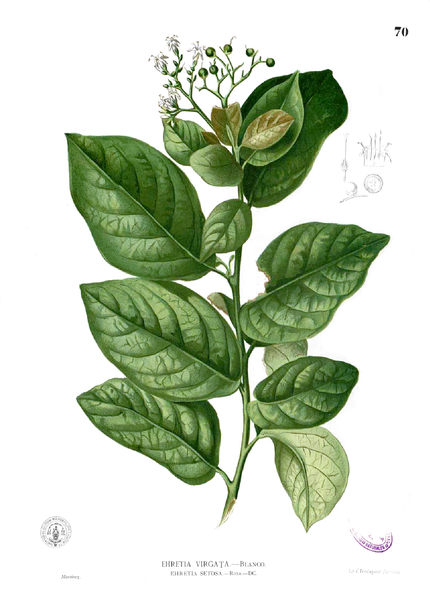 Plate from book